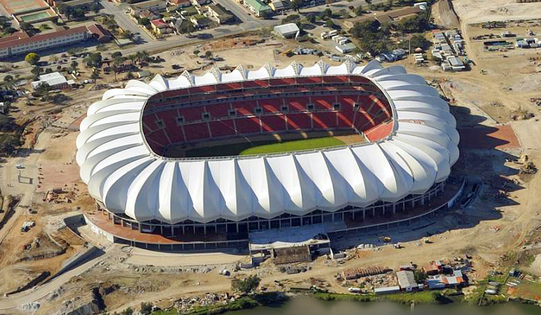 Stadium Nelson Mandela Bay, in Port Elizabeth, South Africa